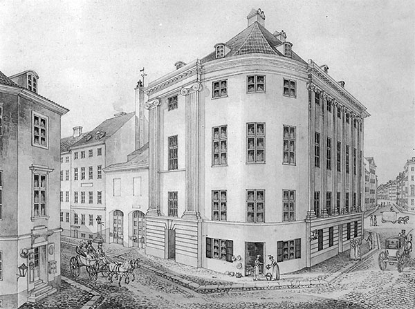 Frederik Tuteins Gård on the corner of Vimmelskaftet and Badstuestræde in Copenhagen, Denmark